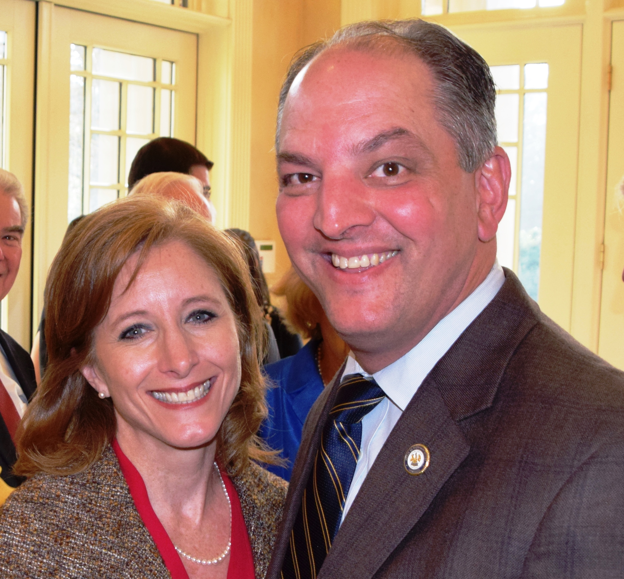 Donna Hutto Edwards and her husband State Representative John Bel Edwards at the 2015 Chefs Evening fundraising event for Southeastern Louisiana University